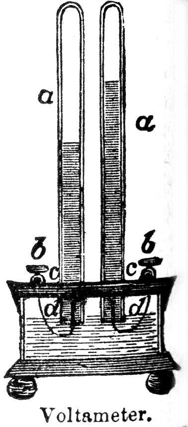 From People's Cyclopedia of Universal Knowledge (1883).